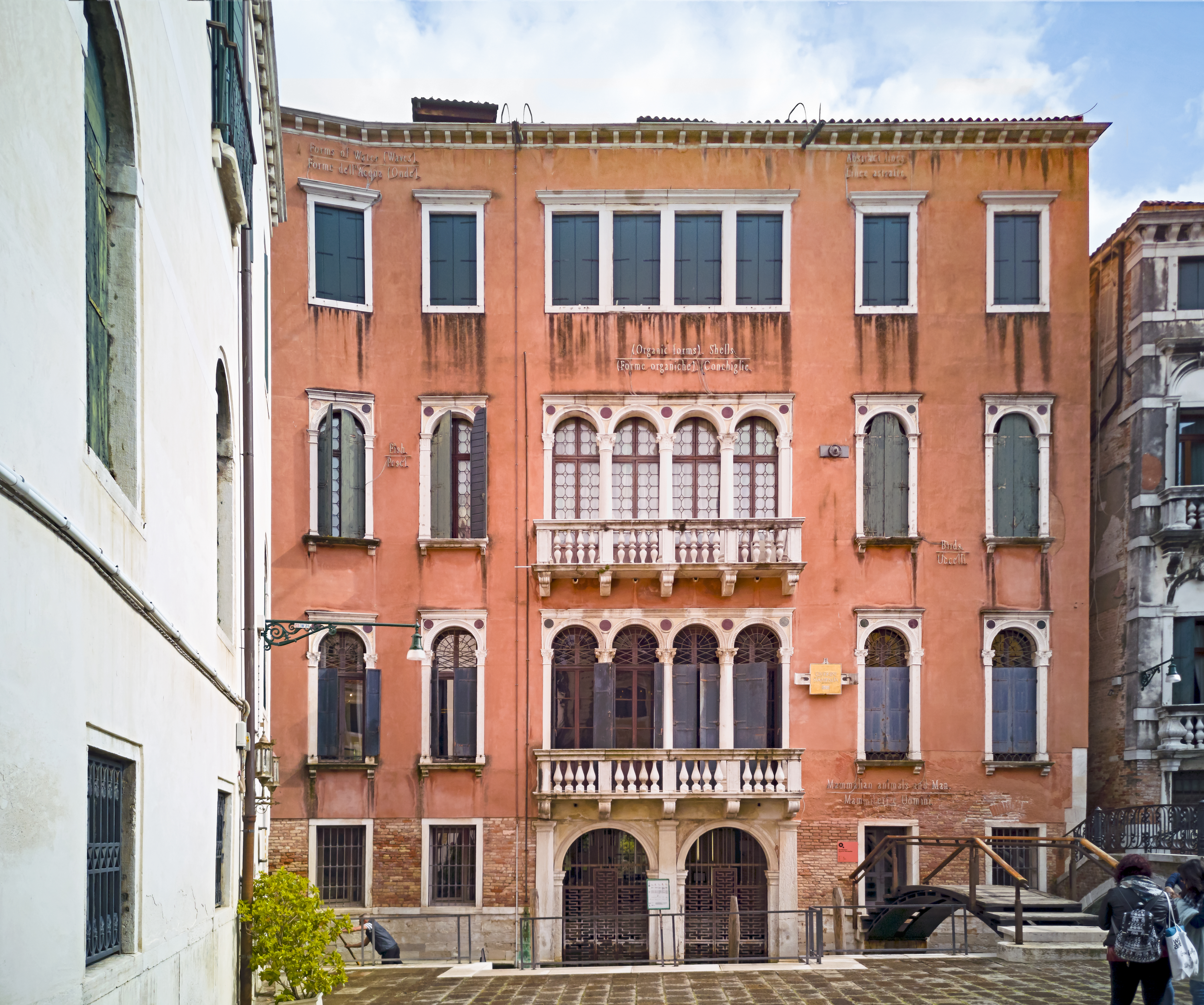 Palazzo Querini Stampalia, Venice - View of the facade on Campiello Querini Stampalia